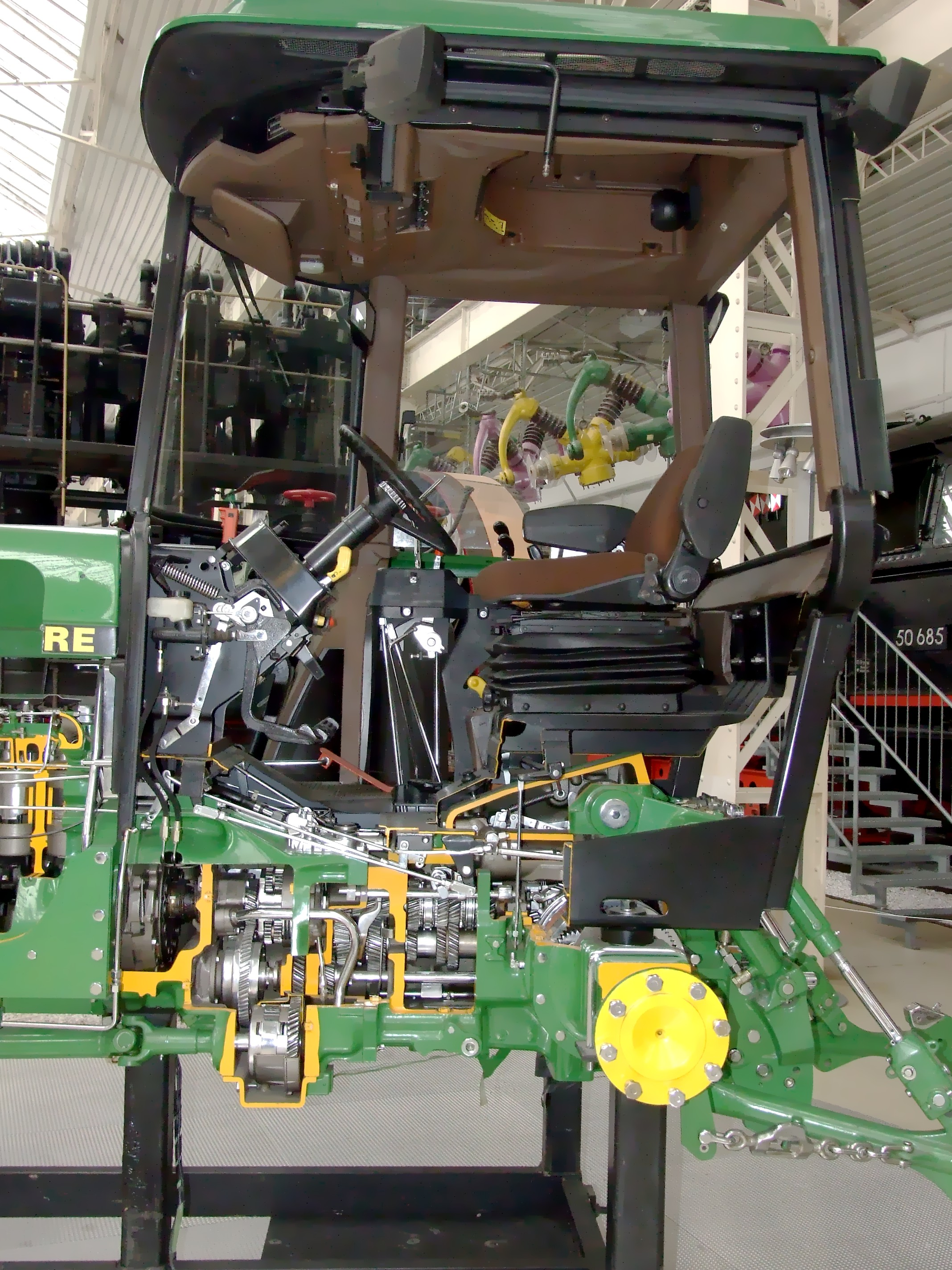 John Deere 3350 tractor cut in Technikmuseum Speyer